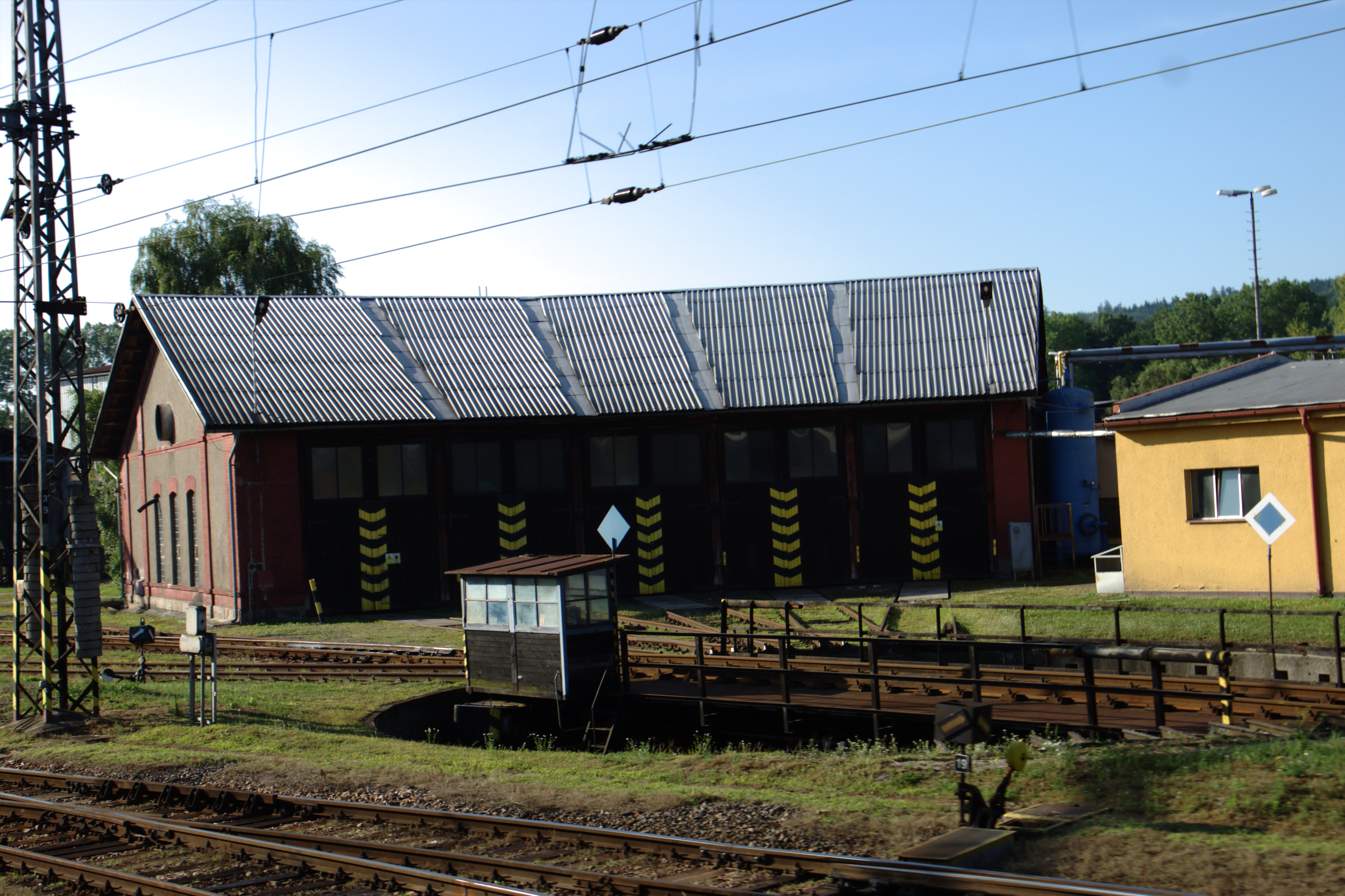 Rail depot in the town of Letohrad, Pardubice Region, CZ